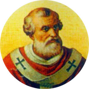 Portait of Pope Conon in the Basilica of Saint Paul Outside the Walls, Rome